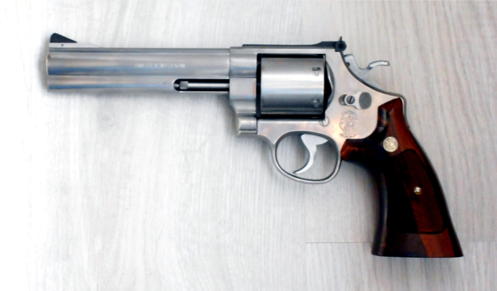 Smith & Wesson Model 629-2